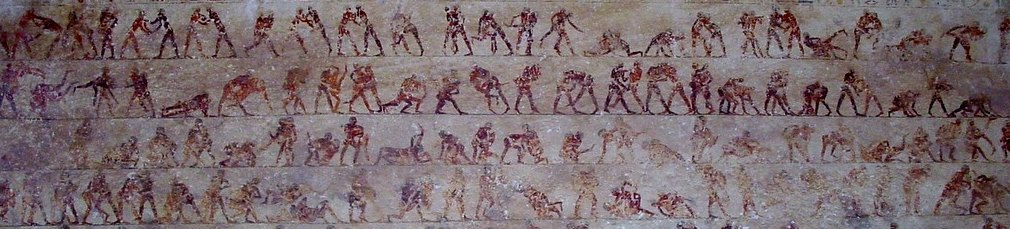 detail of the "wrestling" paintings in tomb 15 at Beni Hassan